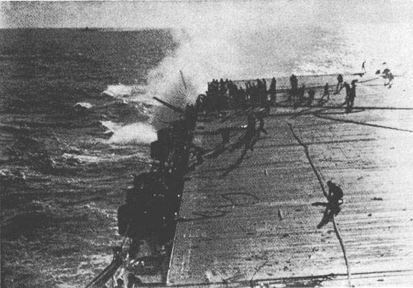 Enterprise damage control teams fight fires resulting from bomb hits during Japanese aerial attack on August 24, 1942.